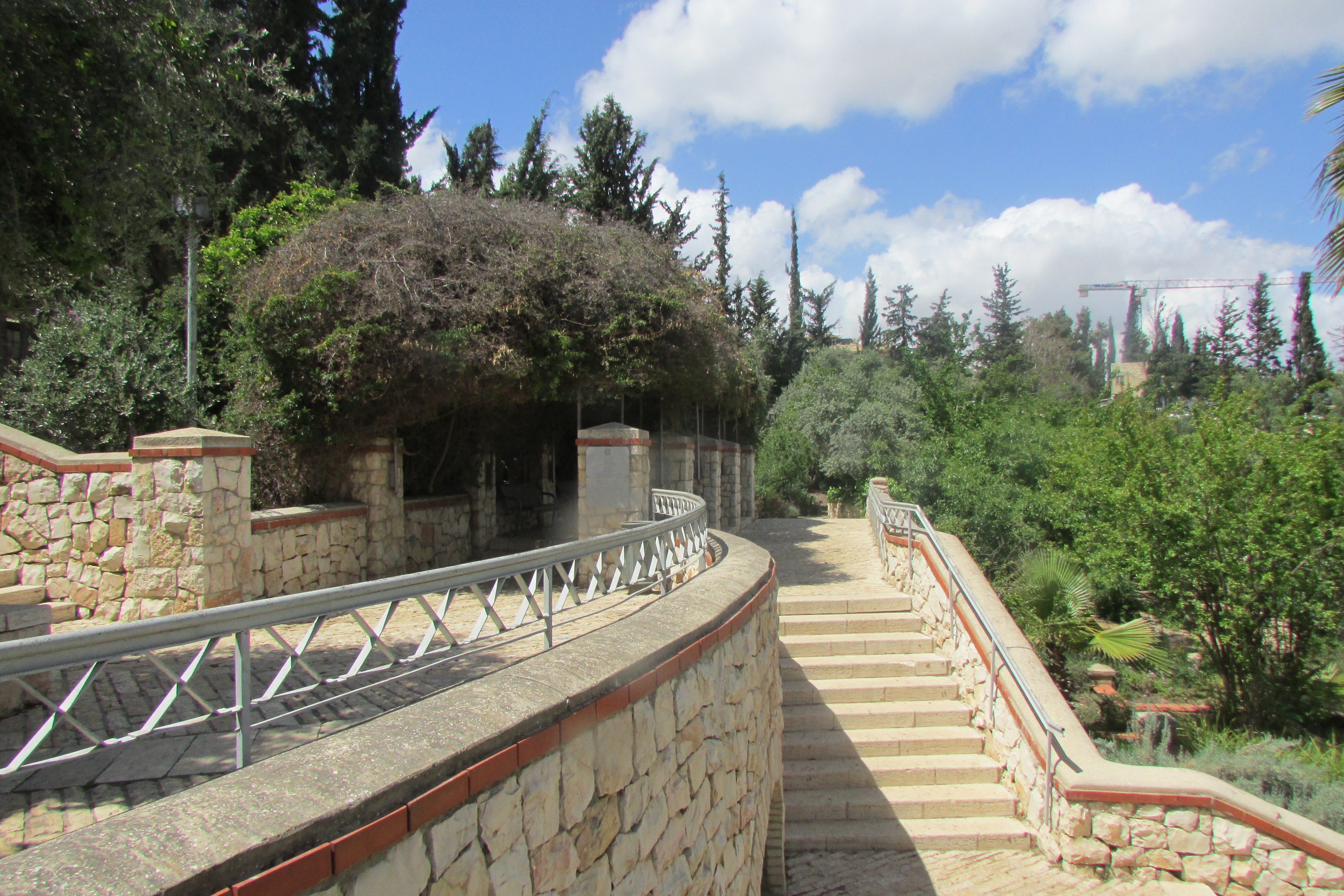 Blumfield Garden